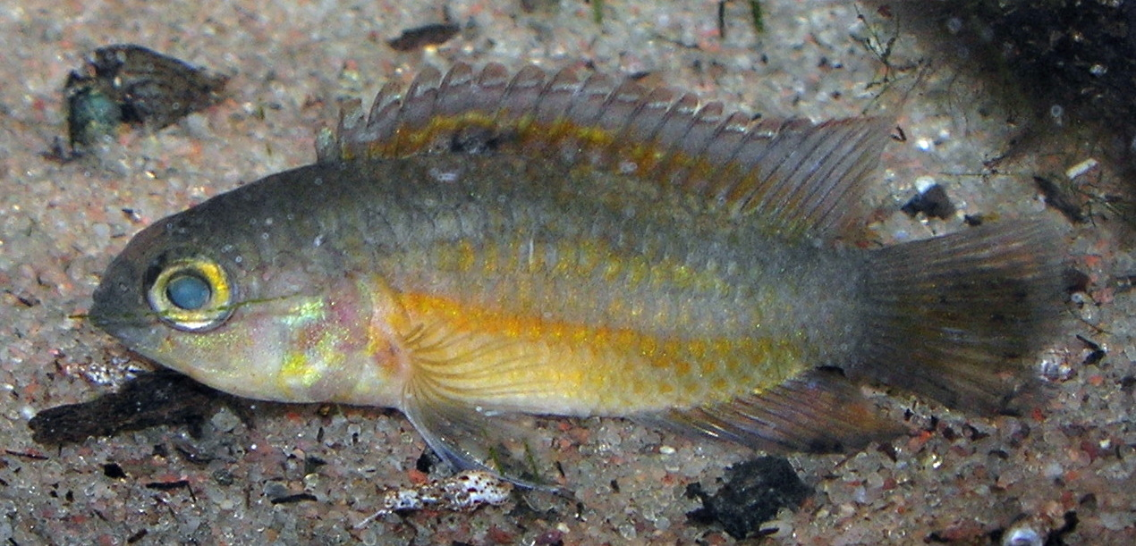 Nannacara anomala, juvenile (ca. 2 cm SL), in an aquarium.